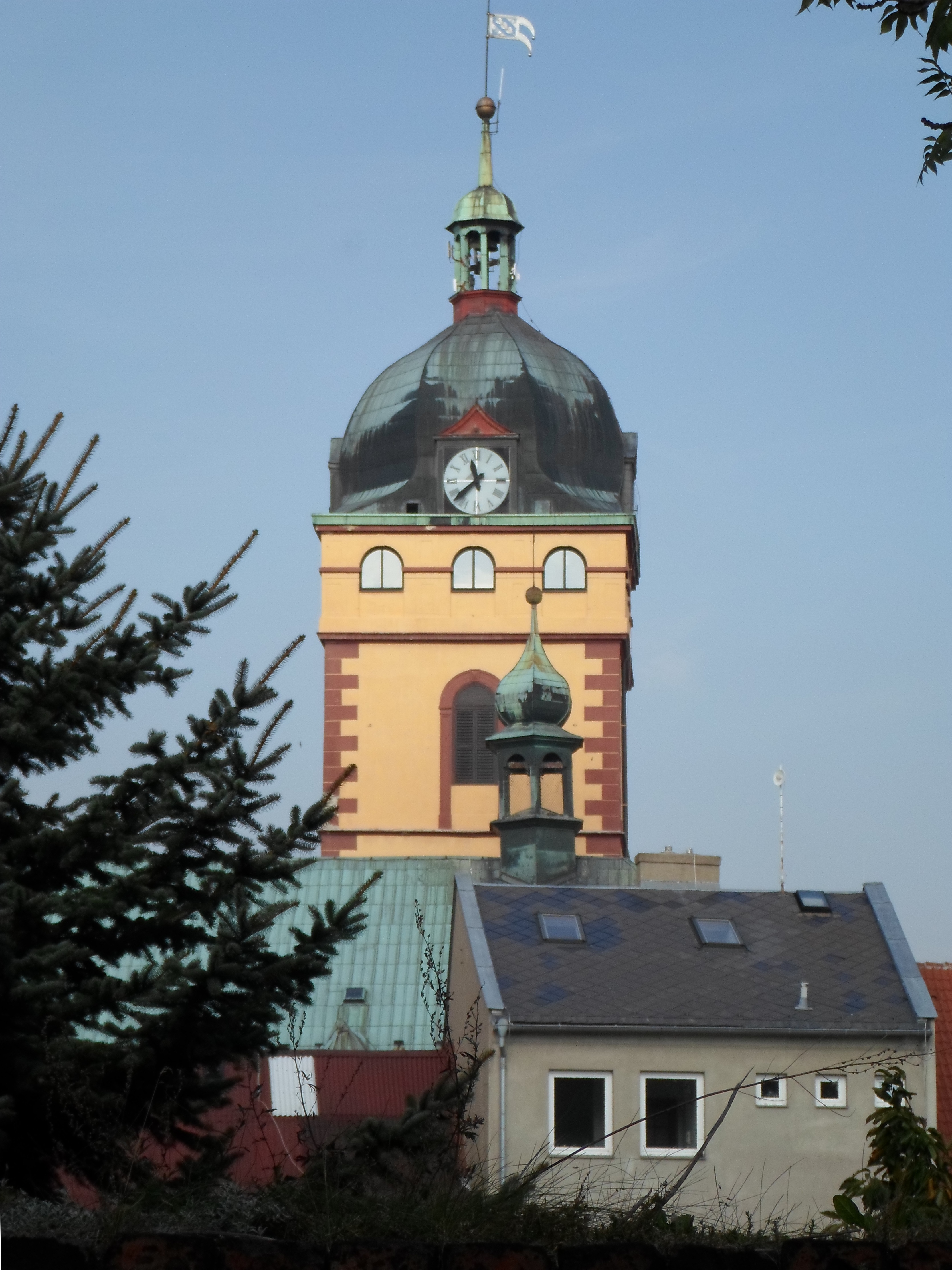 Jirkov, Church Tower